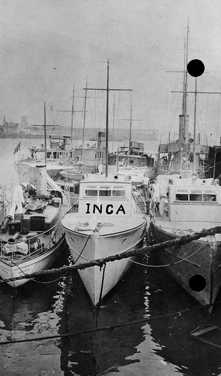 Boats undergoing conversion for World War I use as United States Navy patrol vessels. In the foreground are, left to right, , , and an unidentified boat. Four more unidentified boats are behind them.